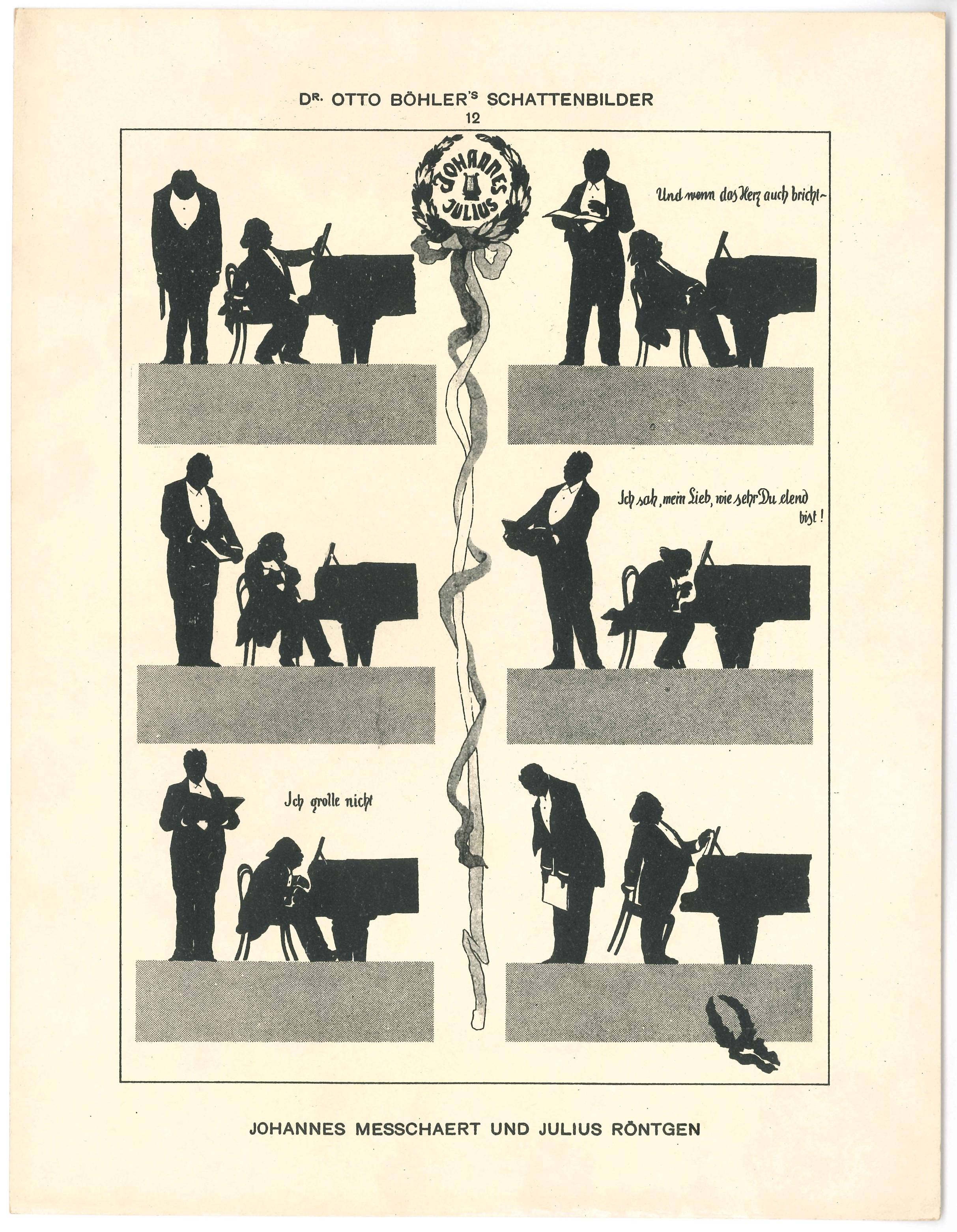 Johan Messchaert (1857—1922) Julius Röntgen (1855—1932), silhouette 20 x 26 cm; photo of Böhler´s silhouette printed on thick card